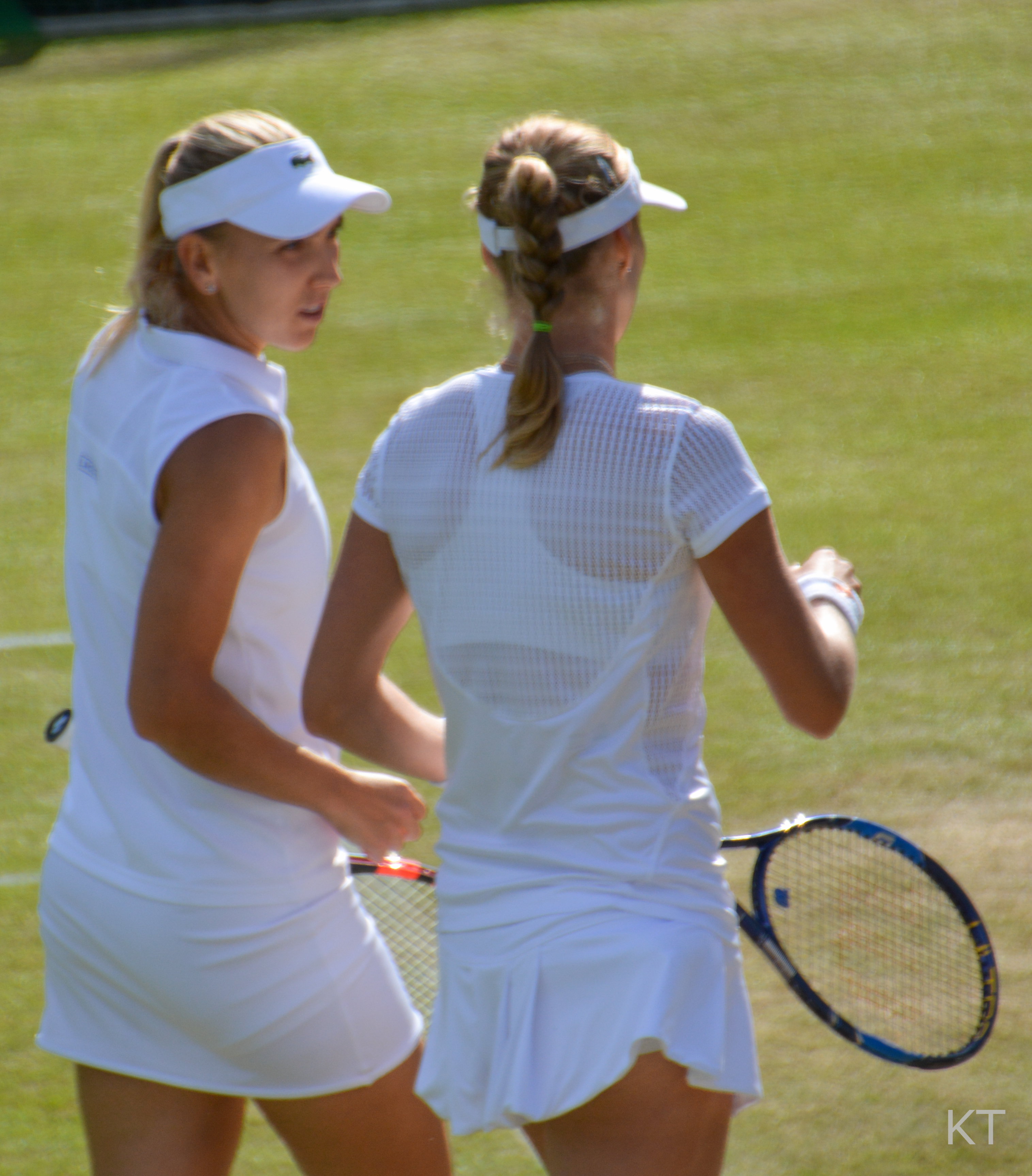 Doubles against Anna Smith & Jocelyn Rae on Court 3. Middle Sunday of Wimbledon 2016.